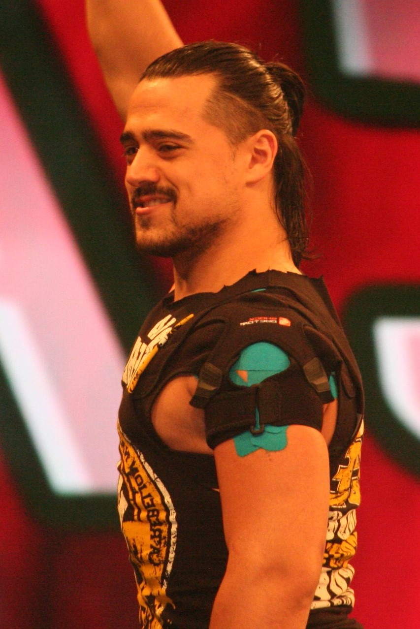 Garza Jr at Impact Wrestling's Bound for Glory event in November 2017. Cropped and flipped from original (File:Garza Jr BFG 17.jpg